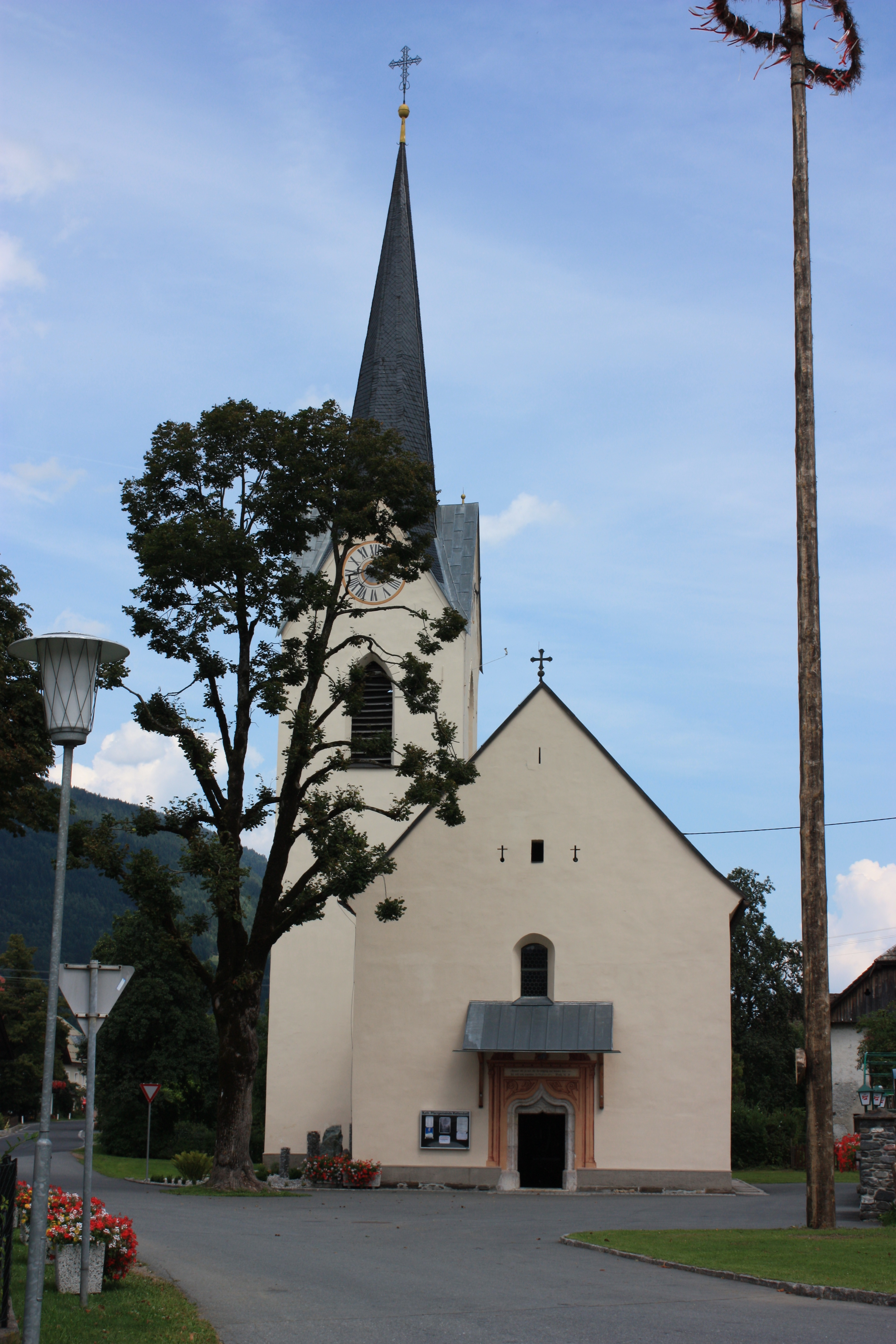 Parish church Locality: Rattendorf Community:Hermagor